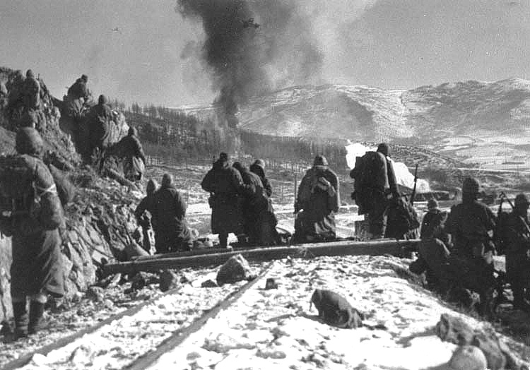 Marines at Hagaru perimeter watch Corsairs drop napalm on Chinese as Item Company 31/7 moves around high ground at left to attack enemy position.